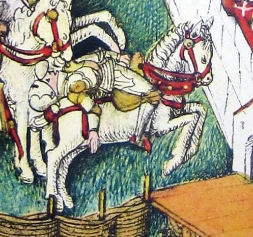 Burkhard VII. Münch falling off his horse at the Battle of St. Jakob an der Birs. Detail of File:St. Jakob Tschachtlan.jpg